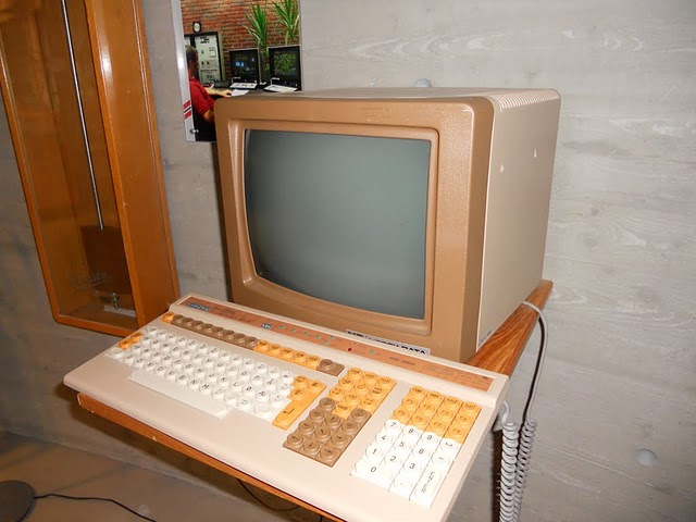 A 1980s computer terminal made by Norsk Data and/or Tandberg, here on display in Aura kraftverk, a Norwegian electric power plant in Sunndalsøra